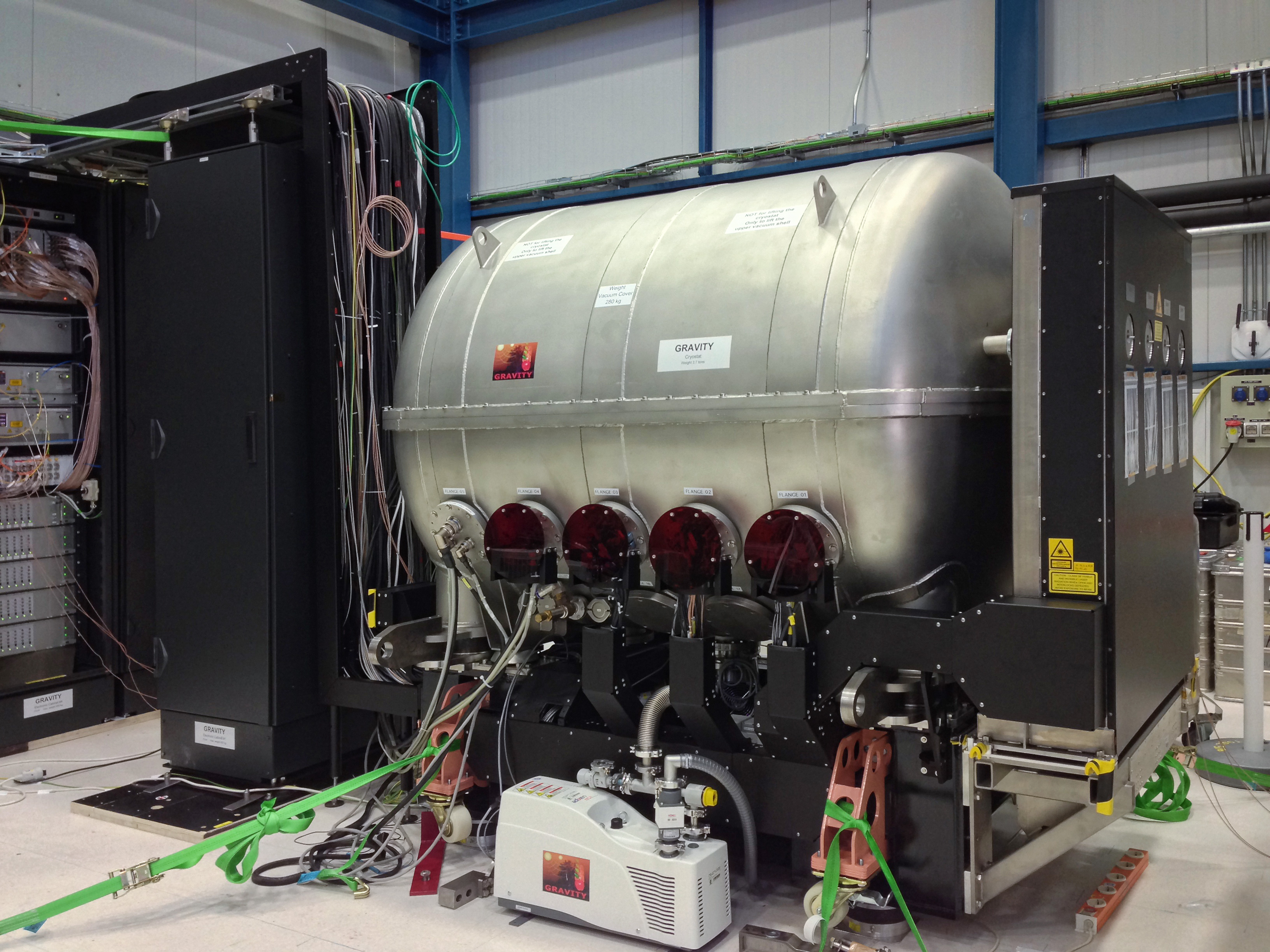 A new instrument called GRAVITY has been shipped to Chile and successfully assembled and tested at the Paranal Observatory. GRAVITY is a second generation instrument for the VLT Interferometer and will allow the measurement of the positions and motions of astronomical objects on scales far smaller than is currently possible. The picture shows the instrument under test at the Paranal Observatory in July 2015.